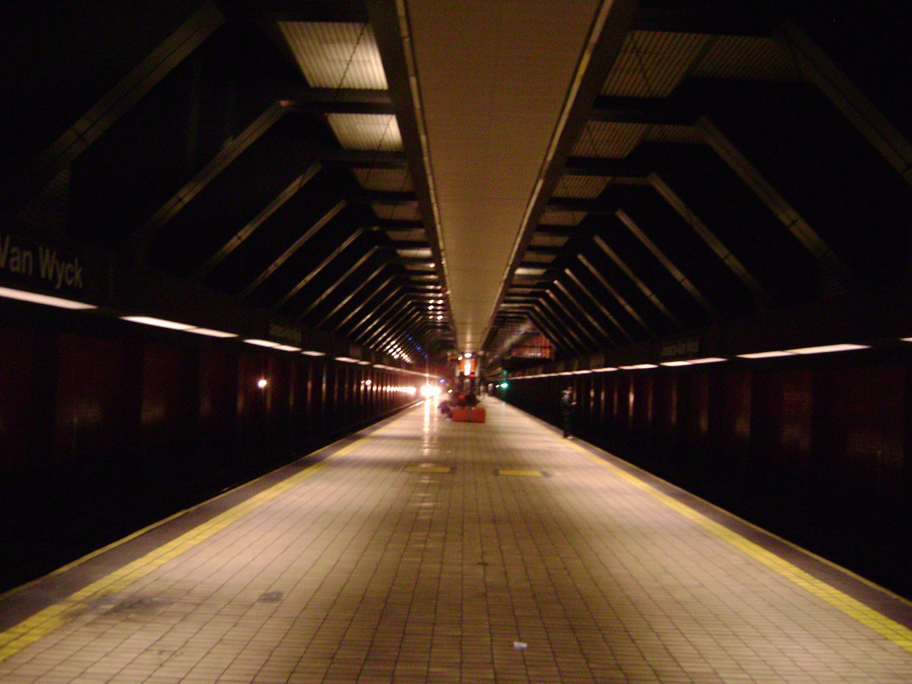 The Jamaica-Van Wyck subway station.